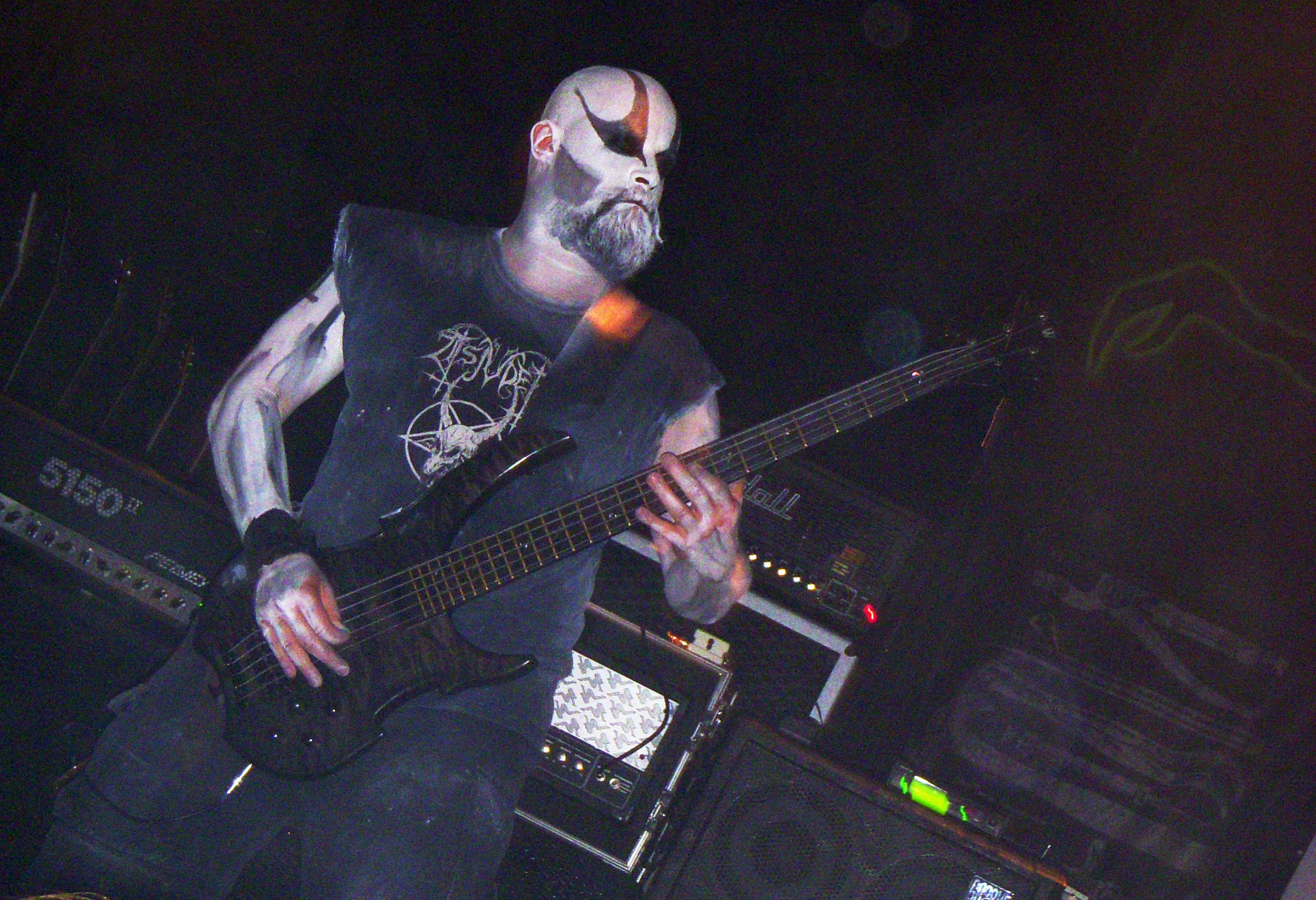 Seidemann, bassist of 1349.